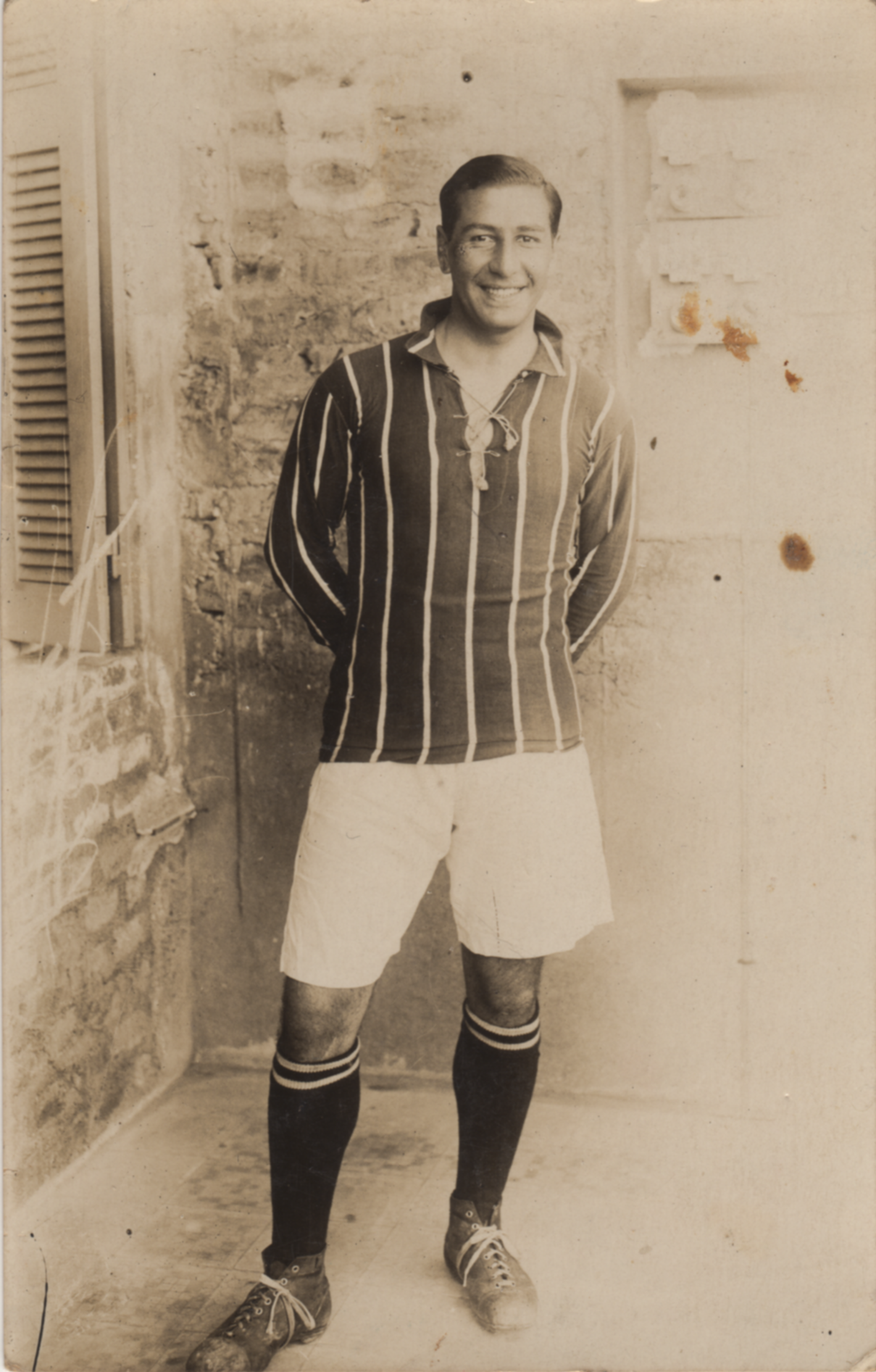 Carlos "Chaleco" Garcia Tello. Approximate date of photo, 1926. Picture taken at an Everton concentration. It was sent as a postcard to his brother Manuel Garcia.